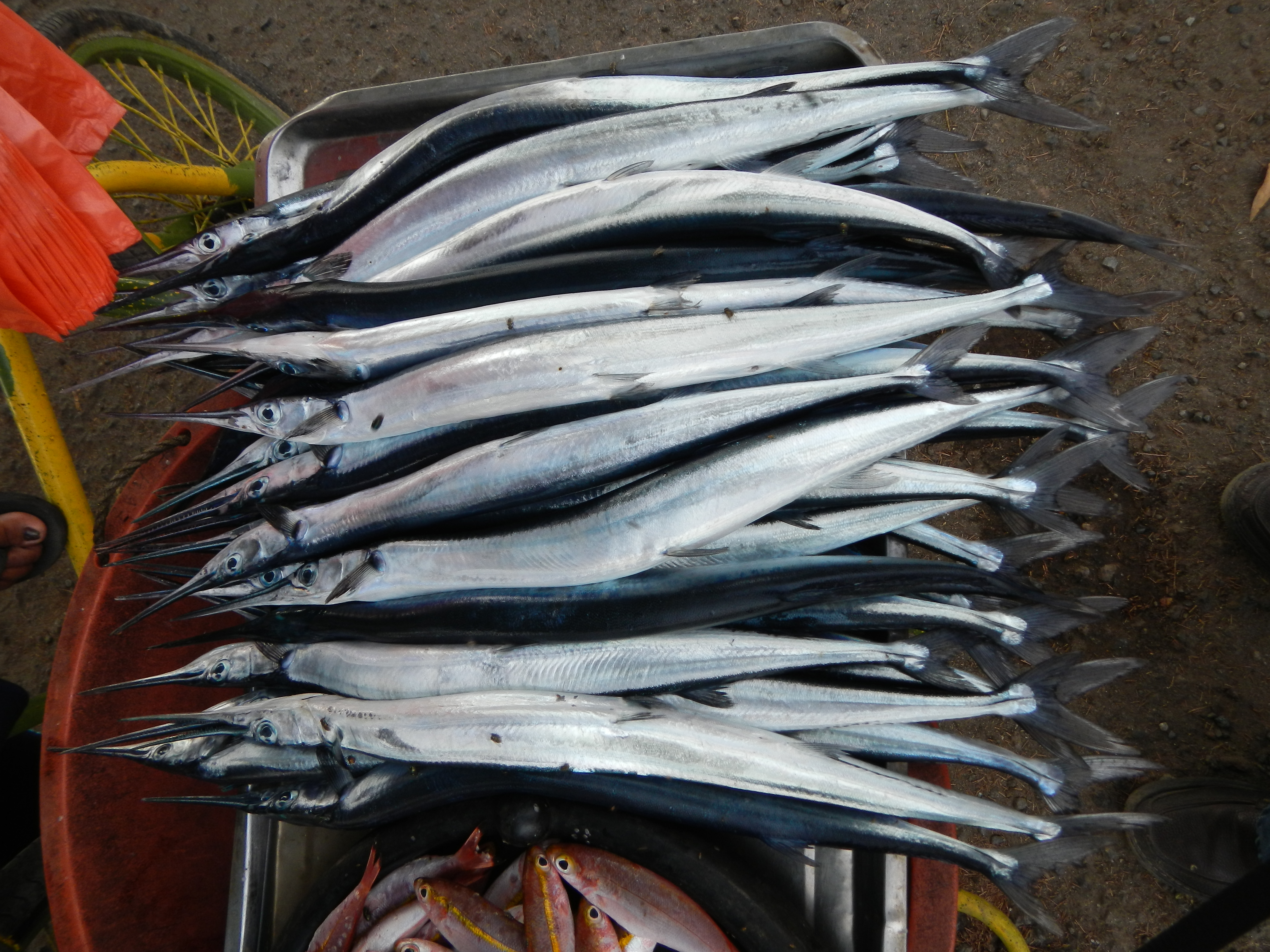 Cabangan's most scenic spot is located at Barangay San Isidro whose prime beaches are virtual tourist destinations in Zambales[1] Coordinates: 15°10'2"N 120°2'7"E[2][3][4]; [5] San Isidro, Cabangan, Philippines is a place located at latitude (15.168085) and longtitude (120.044853) on the map of Philippines.[6] --- Cabangan, Zambales[7] is a fourth class municipality in the province of Zambales, Philippines. According to the 2010 census, it has a population of 23,082 people. San Isidro, Cabangan, Zambales - San Isidro Plaza[8] Coordinates: 15°9'57"N 120°2'50"E Map[9] San Isidro, Cabangan, Philippines is a place located at latitude (15.168085) and longtitude (120.044853) on the map of Philippines.[10]San Isidro Elementary School [11] Coordinates: 15°10'8"N 120°2'43"E *PCIJ: Cabangan in Zambales: Unchanged by elections * Map geographical location : Zambales, Region 3, Philippines, Asia geographical coordinates: 14° 53' 0" North, 120° 13' 0" East This place is situated in Zambales, Region 3, Philippines, its geographical coordinates are 14° 53' 0" North, 120° 13' 0" East and its original name (with diacritics) is Cabangan.[12]Land Area: 239.40 km² ZIP Code: 2203 Coordinates: 15°10'31"N 120°7'0"E[13]) .--[N.B. From Bulacan province about 11:00 a.m. of May 2, Thurday, 2013; I arrived at Cabangan, Zambales about 3 p.m. and captured the town hall, San Isidro beach and St. Rose of Lima Church, inter alia and the busy Public market; I arrived at dusk at Iba, Zambales and took night photo of the Capitolio; on May 3, 2013, 1st Friday, I began photos of Iba, its Capitolio, Cathedral, Municipio, Schools, Sports Complex and then Botolan and I finished photography of the town at 3:25 p.m. amid burning sun, scorching heat at 37 deg. centigrade. The journey from Iba and Botolan, Zambales to Bulacan is more than 7 hours by bus.]